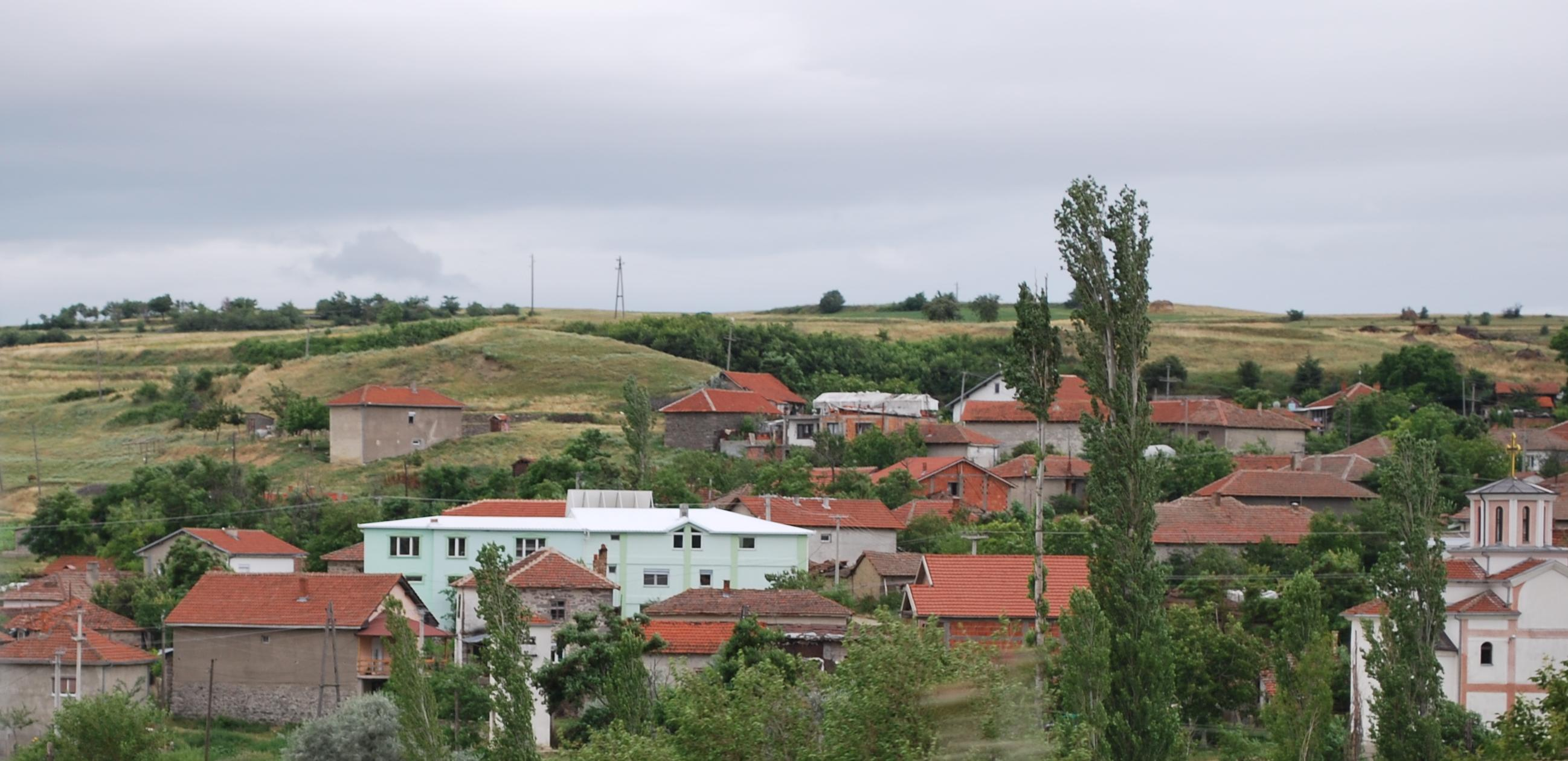 Village Gorobinci, Macedonia